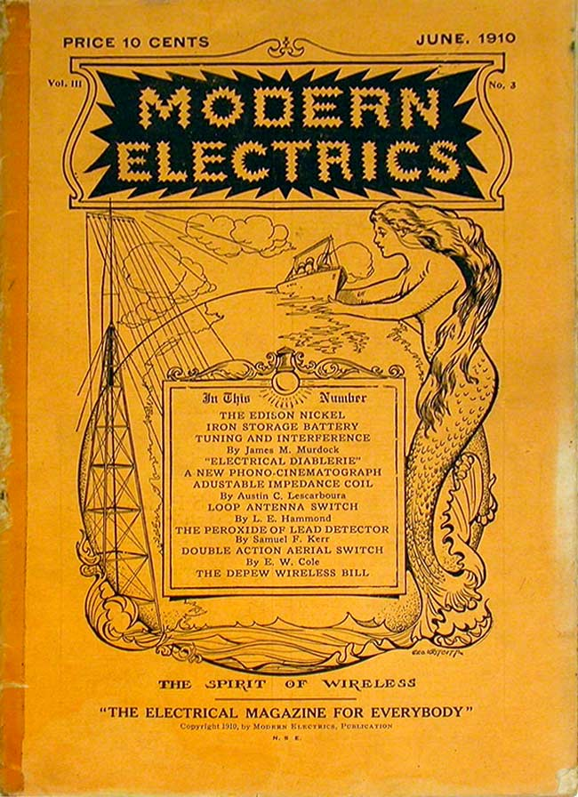 Modern Electrics, June 1910, Volume 3 Issue 3.